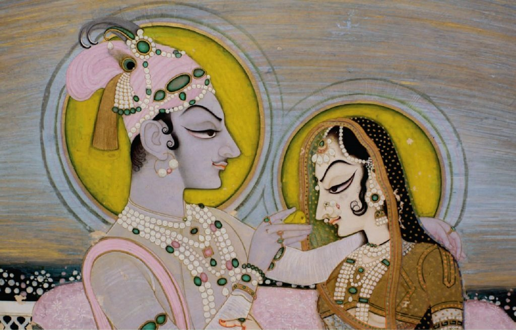 Attributed to Nihal Chand. Savant Singh and Bani Thani as Krishna and Radha (detail), Kishangarh, ca. 1760. Madison Avenue Gallery